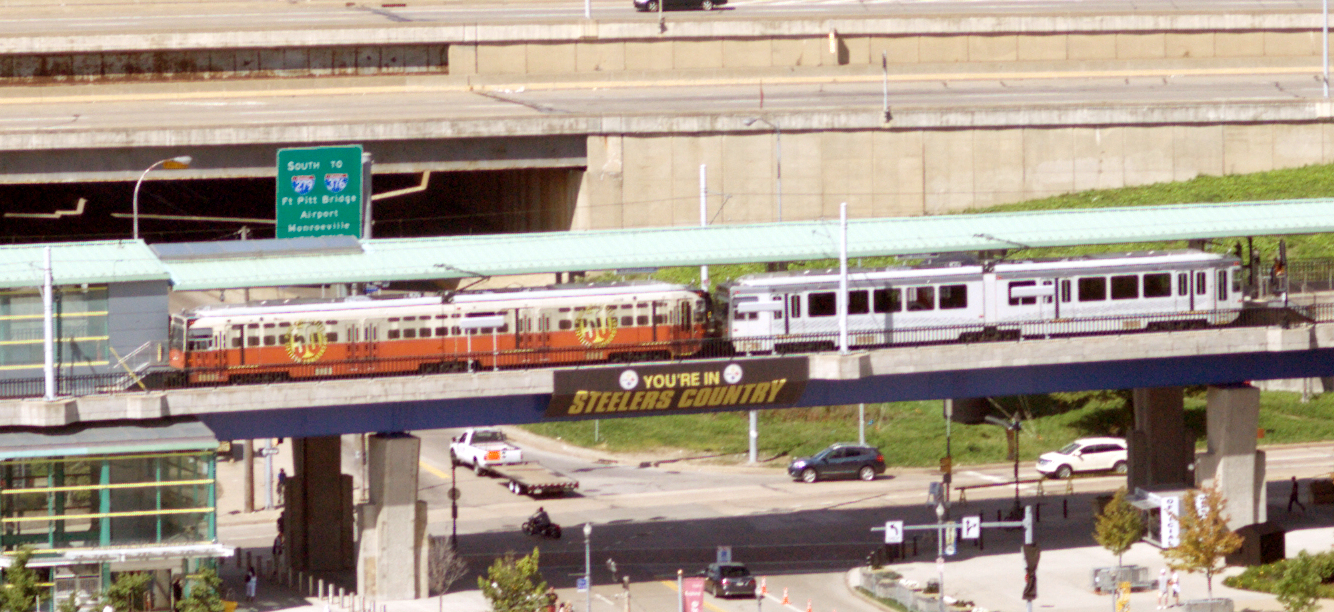 Pittsburgh Light Rail, Allegheny Station, as seen from Mount Washington.